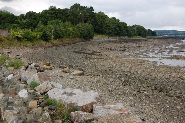 Omeath, Carlingford Lough. The coast around Omeath is wooded with a shingle beach although there are good sandy beaches elsewhere on the Co Louth side of Carlingford Lough. This is the shoreline at Omeath, close to low water, looking towards the Co Down coast on the Newry side of Warrenpoint.